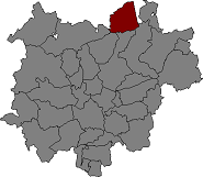 Location of Gaià in Bages